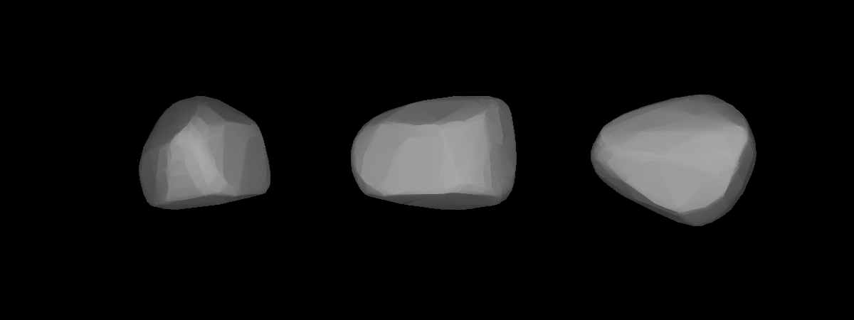 A three-dimensional model of 708 Raphaela that was computed using light curve inversion techniques.